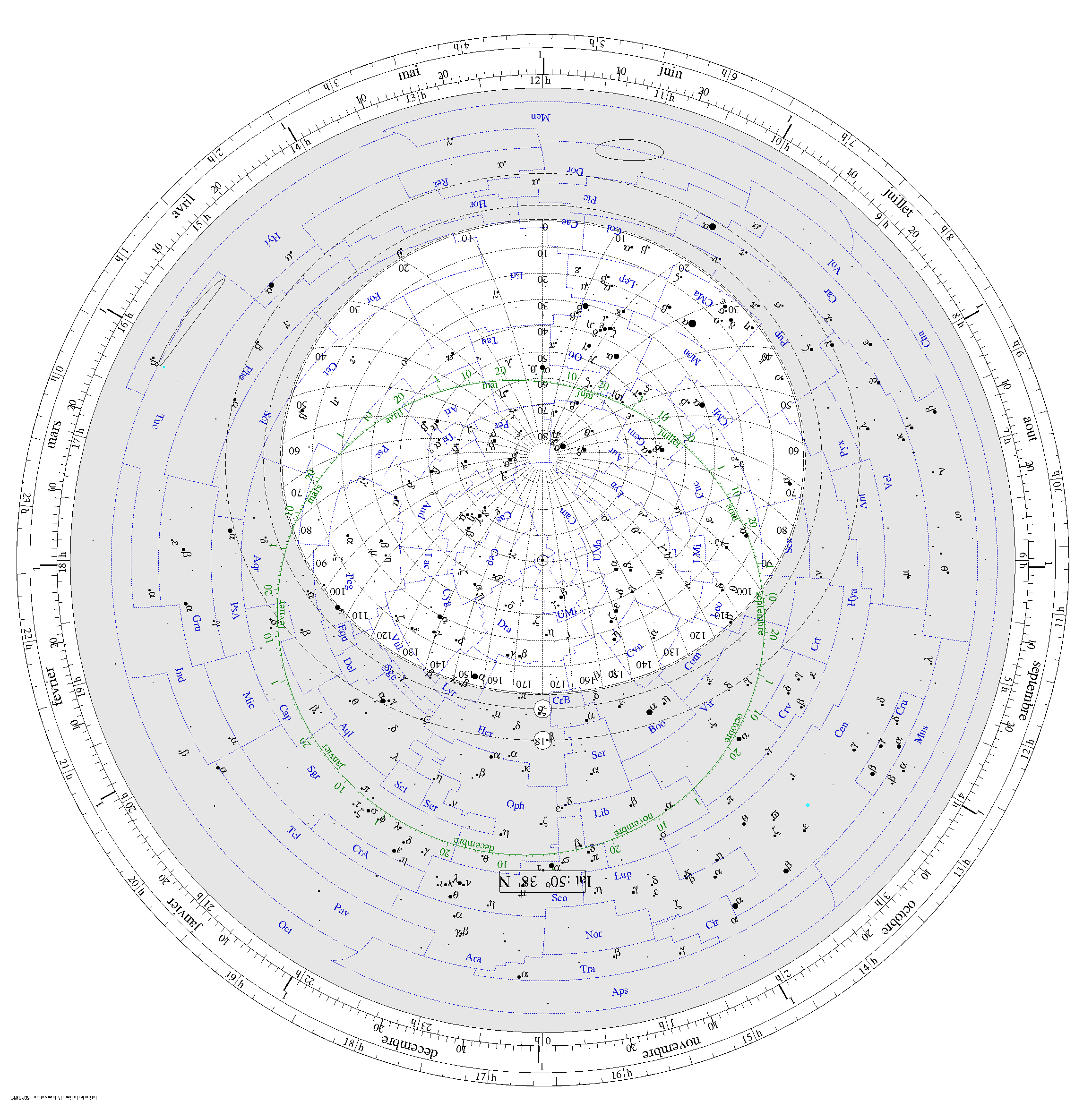 Mobile skymap printout (sky at the latitude of Liege (Belgium, 50.6N), the 30th of january at about 8 pm (UTC+longitude)